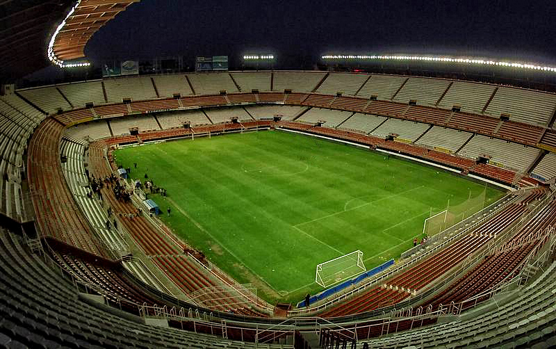 Ramón Sánchez Pizjuán Stadium in Seville, Spain